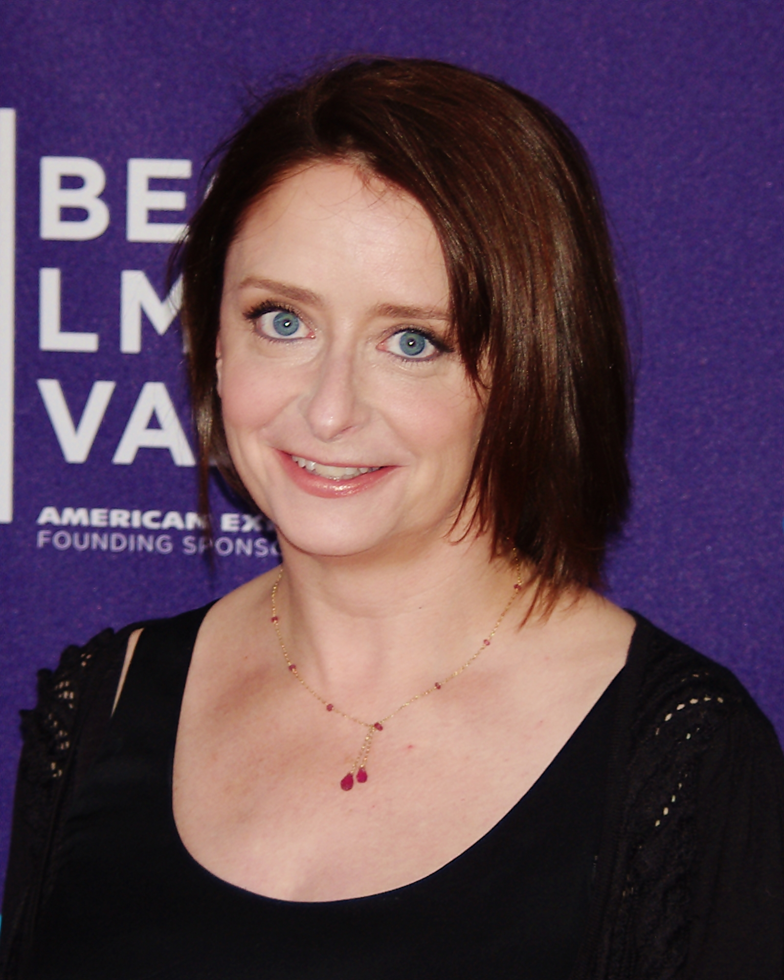 Rachel Dratch at the 2012 Tribeca Film Festival premiere of Teacher of the Year.